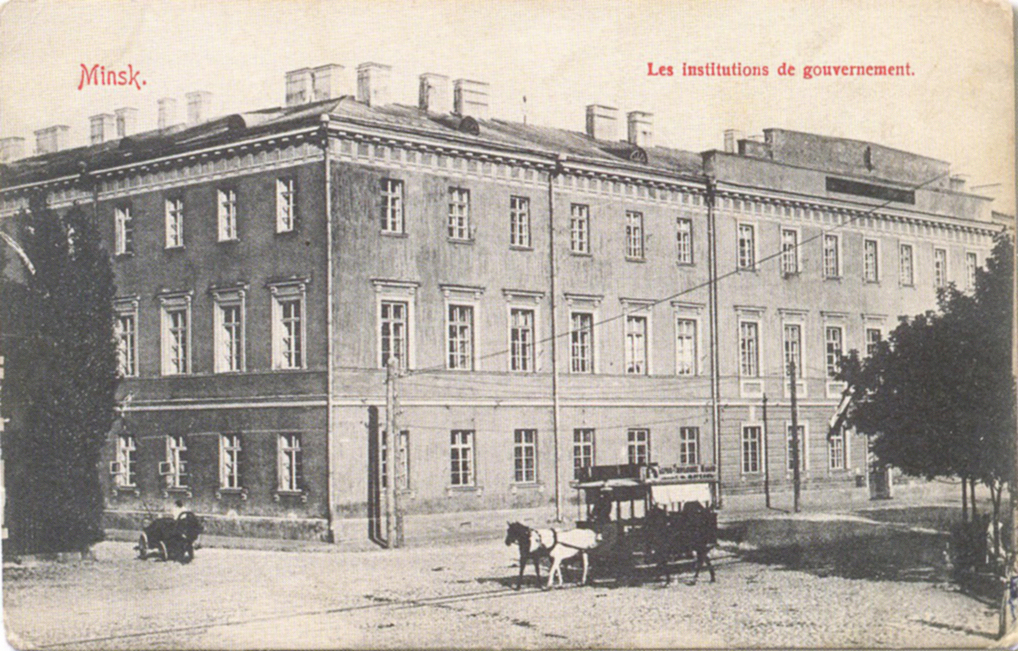 Church of Holy Spirit in Minsk